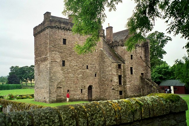 Huntingtower Castle Huntingtower Castle- the former "Place of Ruthven" oder "Palace of Ruthven" - is a 15th century building consisting of two connected towers. The earlier original Huntingtower is the easter tower. It was the home of the Ruthven family.